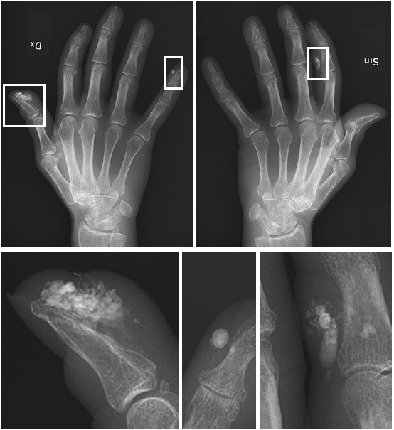 Oblique X-rays of the hands of a 72 year old woman with CREST syndrome in the form of scleroderma and Raynaud's phenomenon. The images show calcinosis, which is also part of the CREST syndrome.